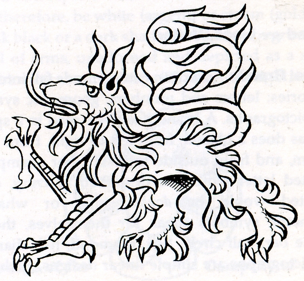 Heraldic alphyn drawn by me based on standard reference materials and scanned.